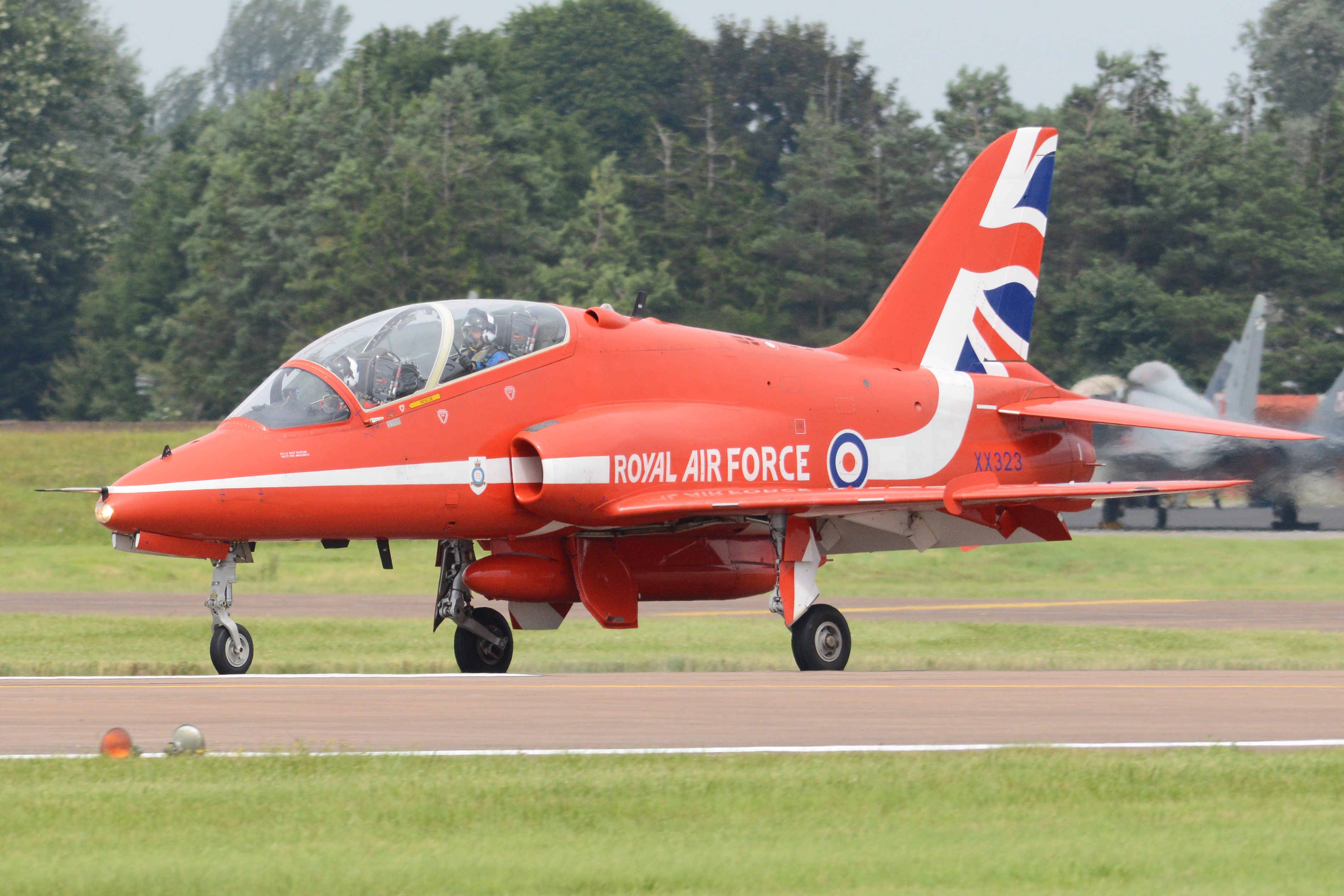 c/n 312148, l/n 167. Built 1980. Operated by the Royal Air Force ‘Red Arrows’ aerobatic team, based at RAF Scampton. Seen landing back after displaying at the 2016 Royal International Air Tattoo (RIAT), Fairford, UK. Friday 8th July 2016